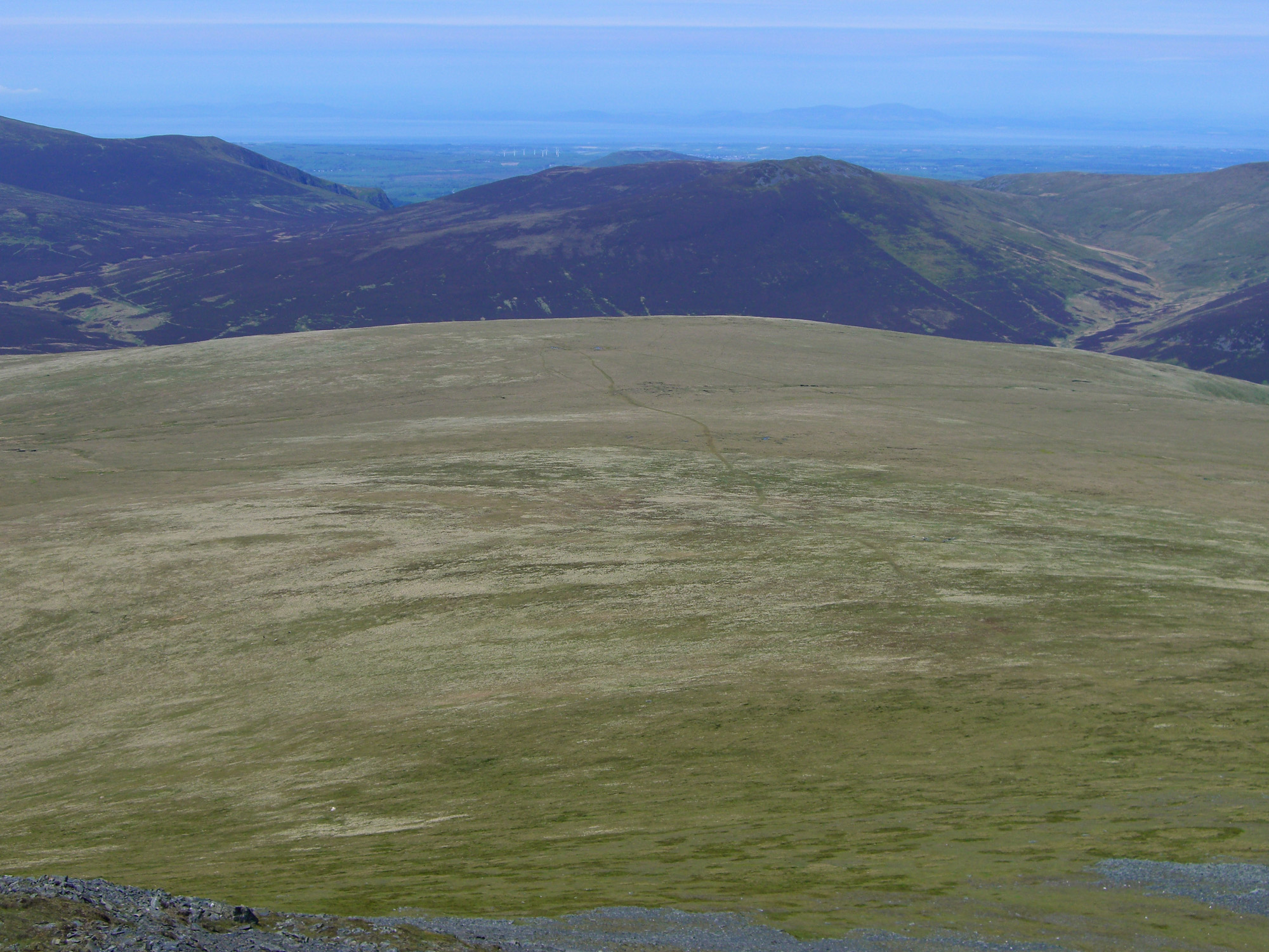 The high moorland of Mungrisedale Common seen from Atkinson Pike on Blencathra, 1.5 km to the SE